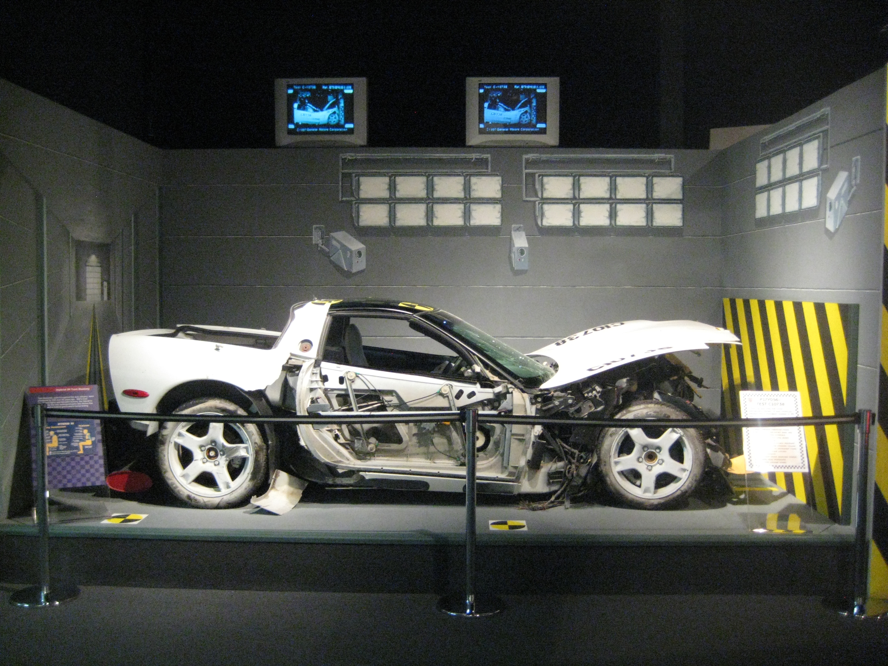 P17Y056 - Test C10738 The car was crashed head-on at 35 MPH.